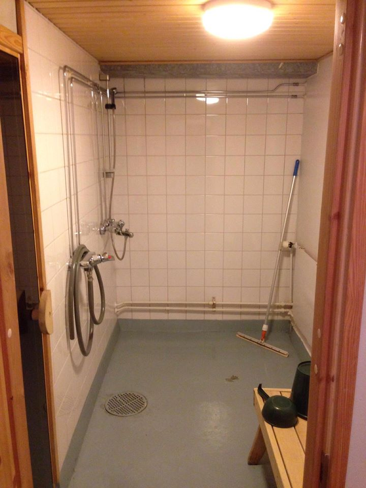 Washroom